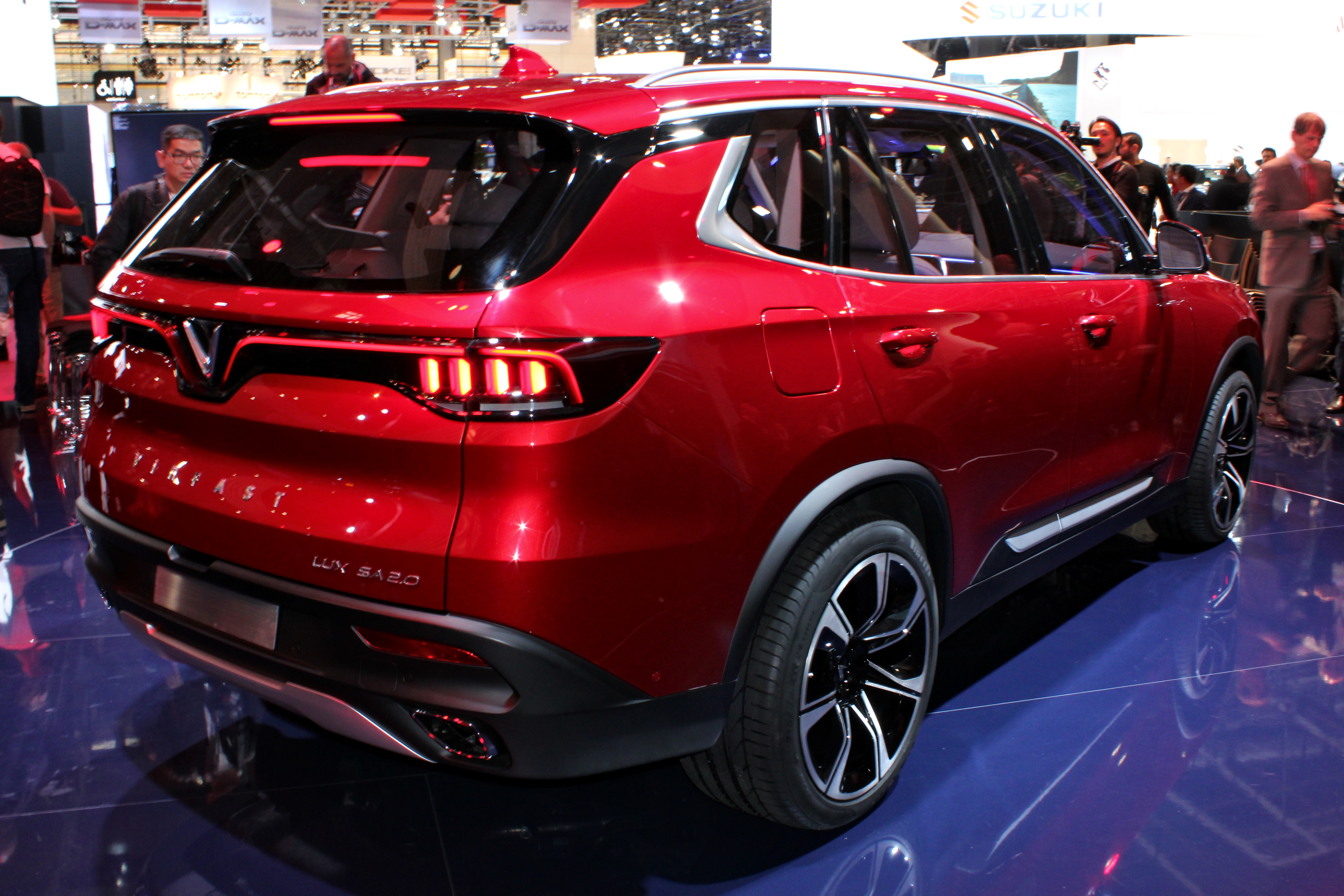 Vinfast Lux SA 2.0 at Paris Motor Show 2018